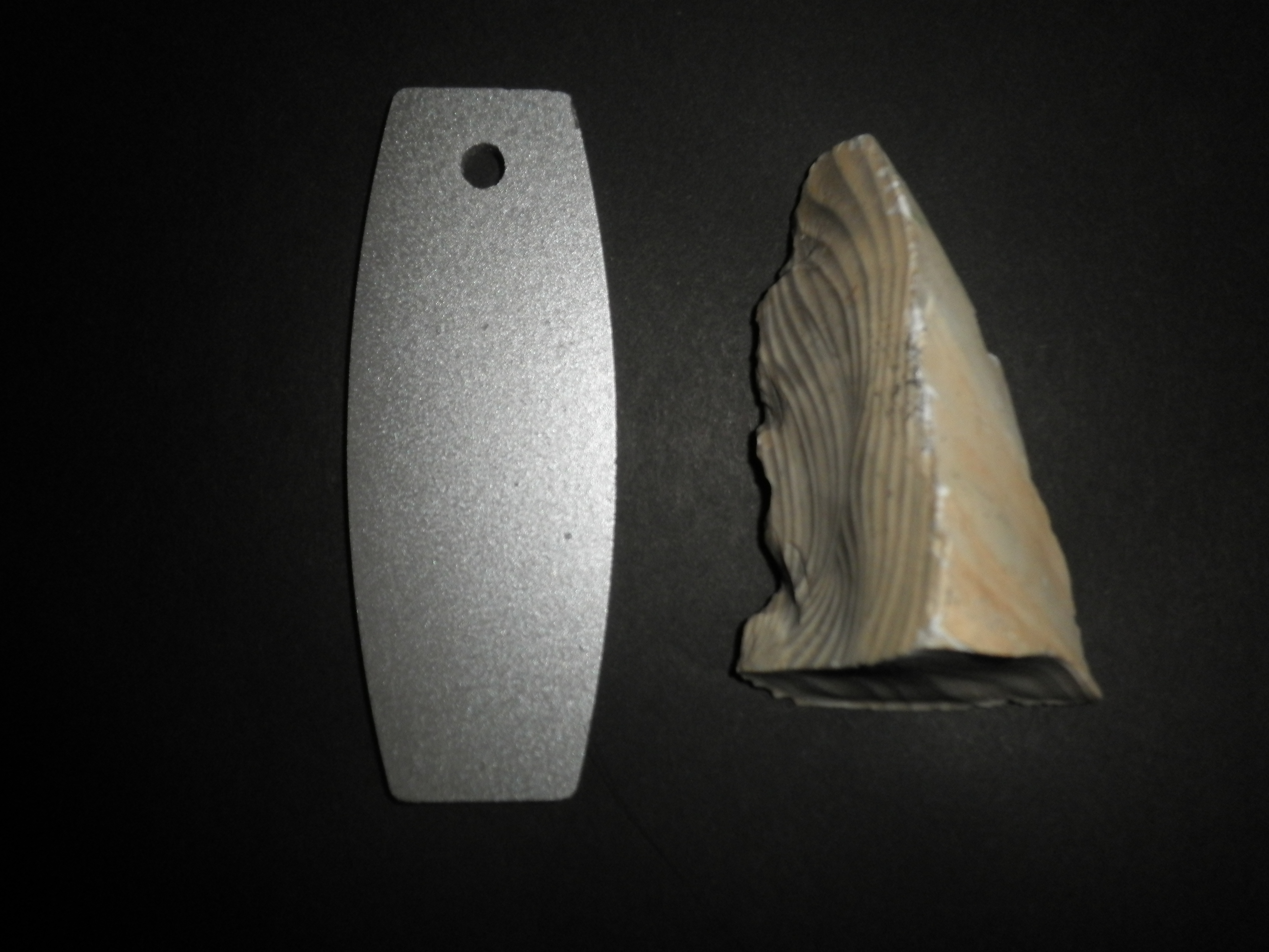 flint:to make fire